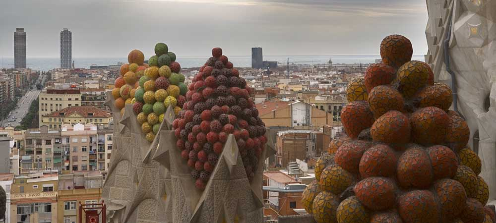 Baskets with fruit in ceramic mosaic by Etsuro Sotoo